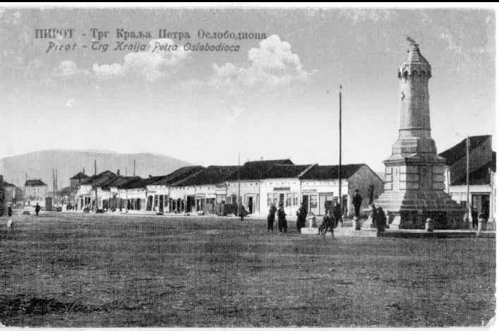 Postcard – King Petar Squre in Tijabara